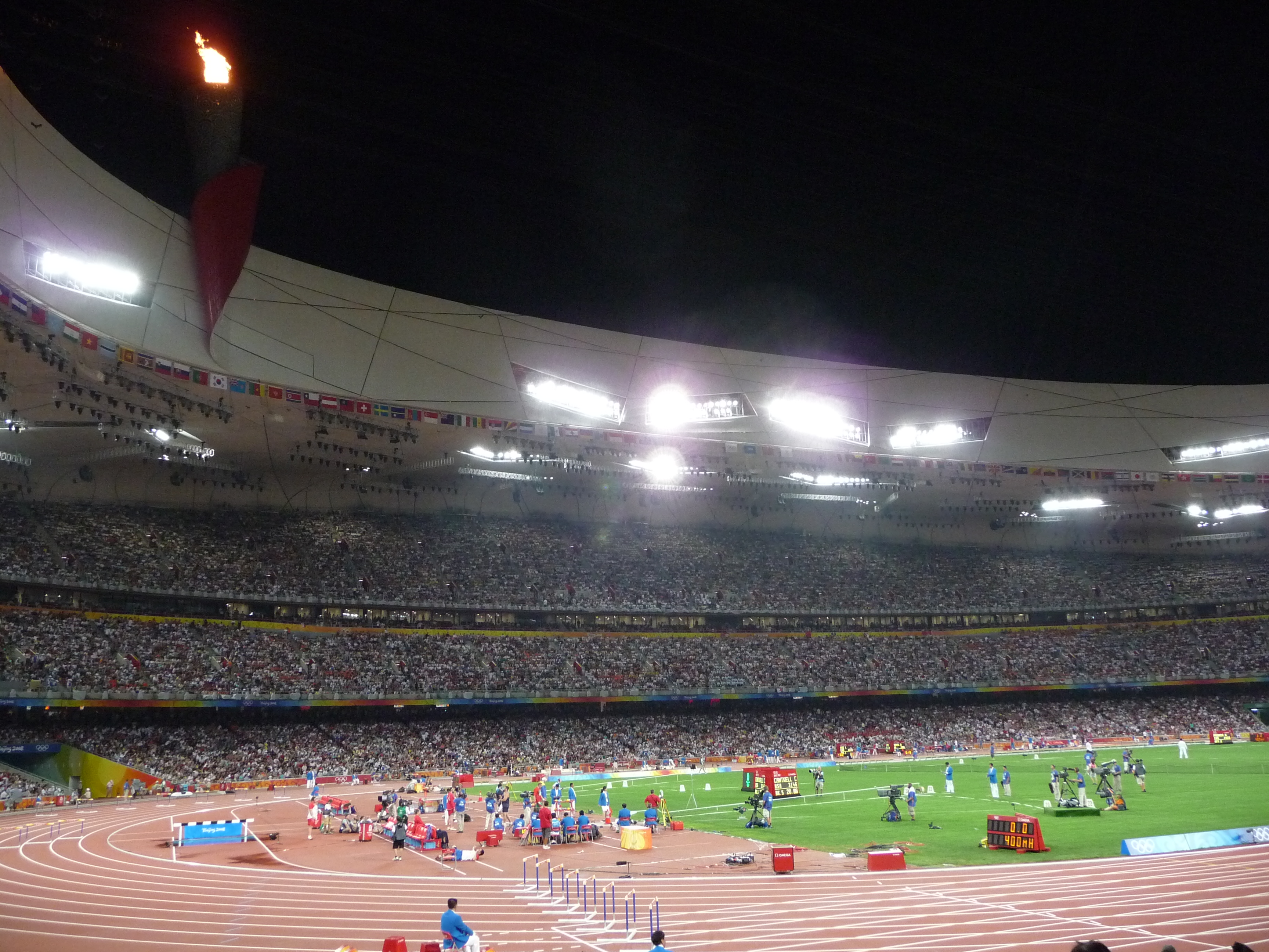 Beijing Olympic Stadium August 15, 2008 at 9.54pm PDT Track and field event